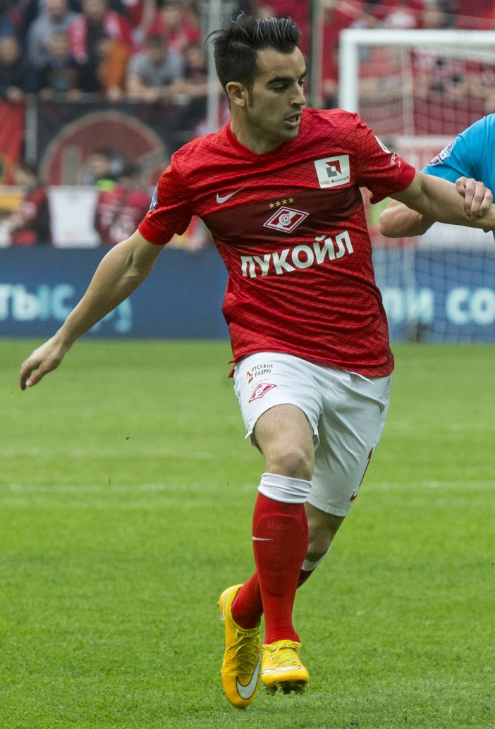 José Manuel Jurado